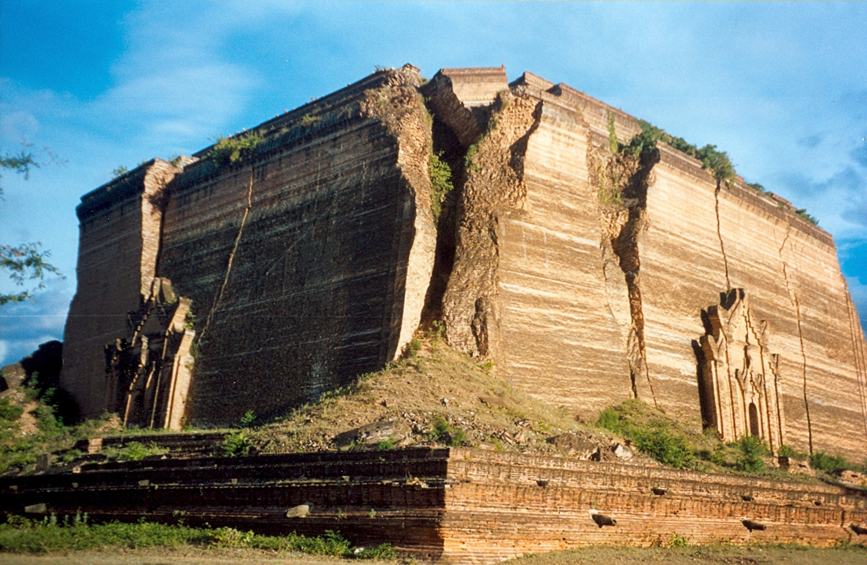 Ruins of the massive stupa of Mingun near Mandalay, Burma.